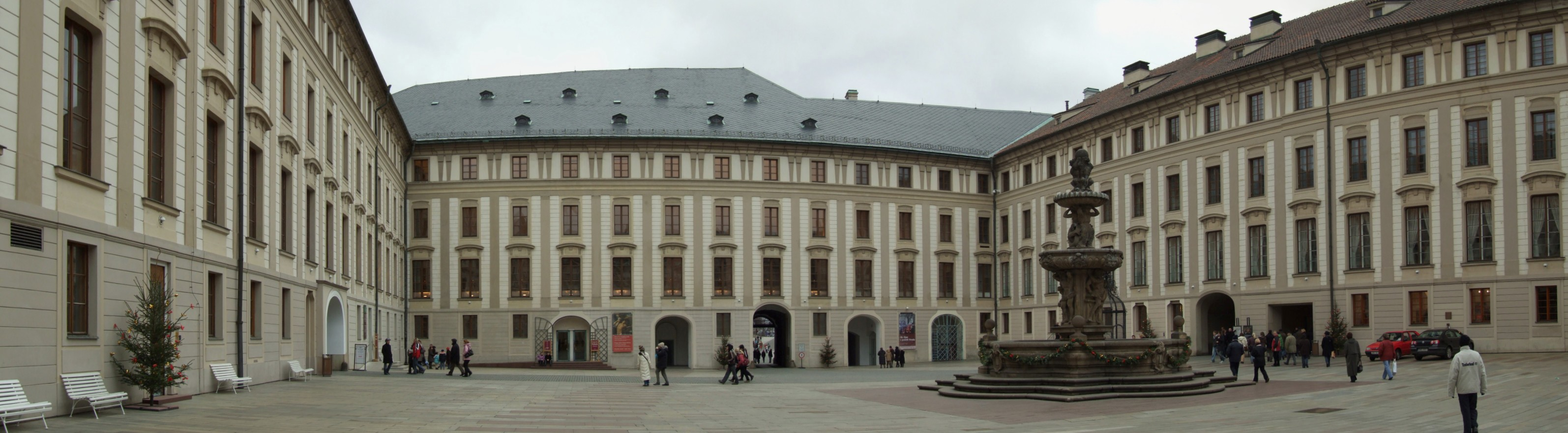 Courtyard (Druhé nádvoří) in New Royal Palace, Prague